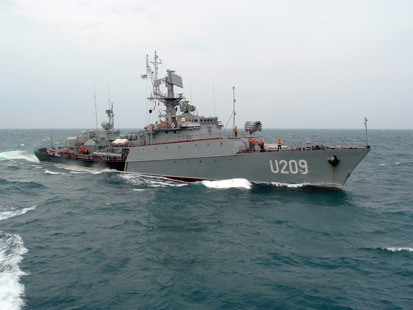 Ternopil (ship, 2002), in Mediterranian, October 2013, NATO joint training